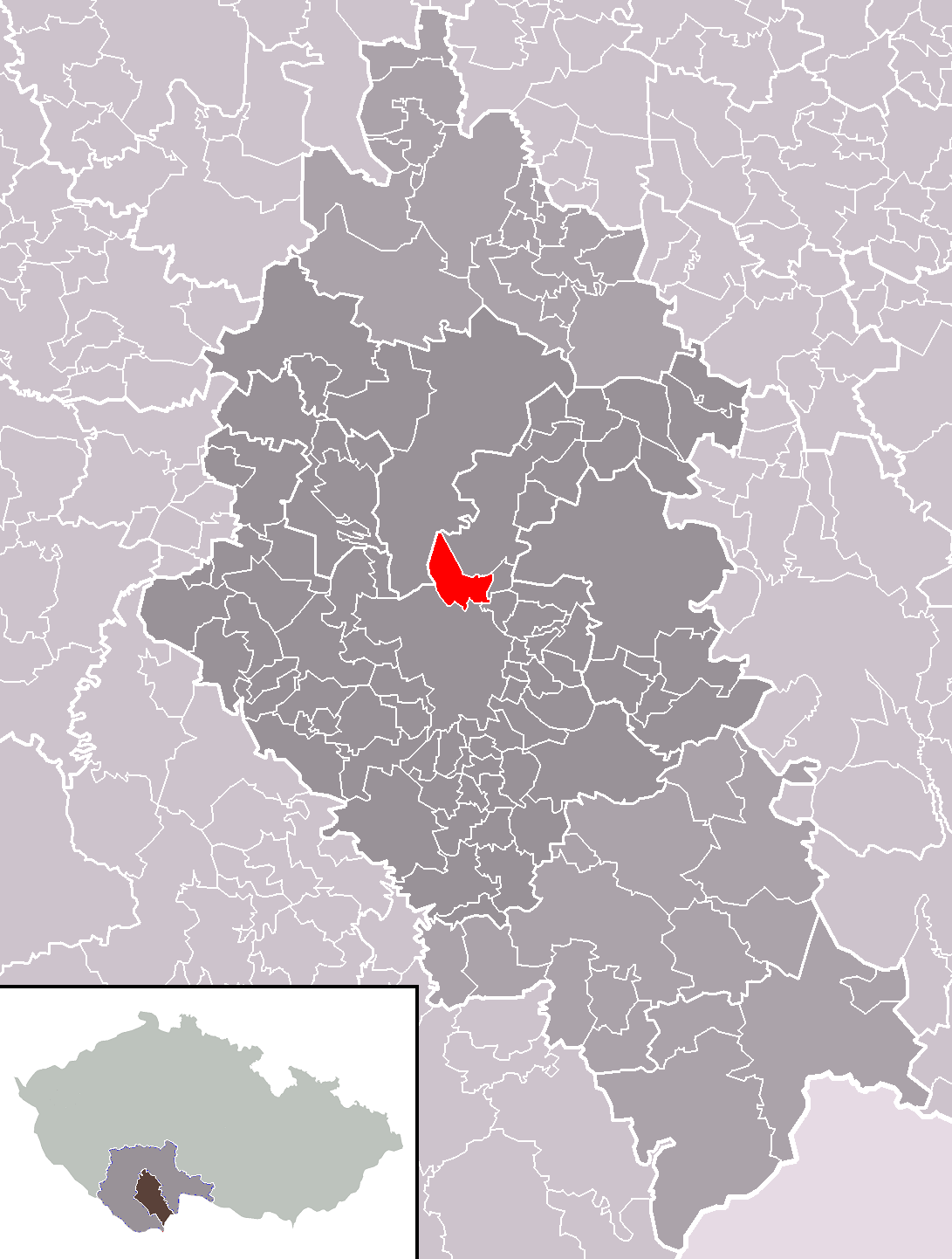 Location of Hrdějovice municipality within České Budějovice District and administrative area of České Budějovice as a Municipality with Extended Competence.